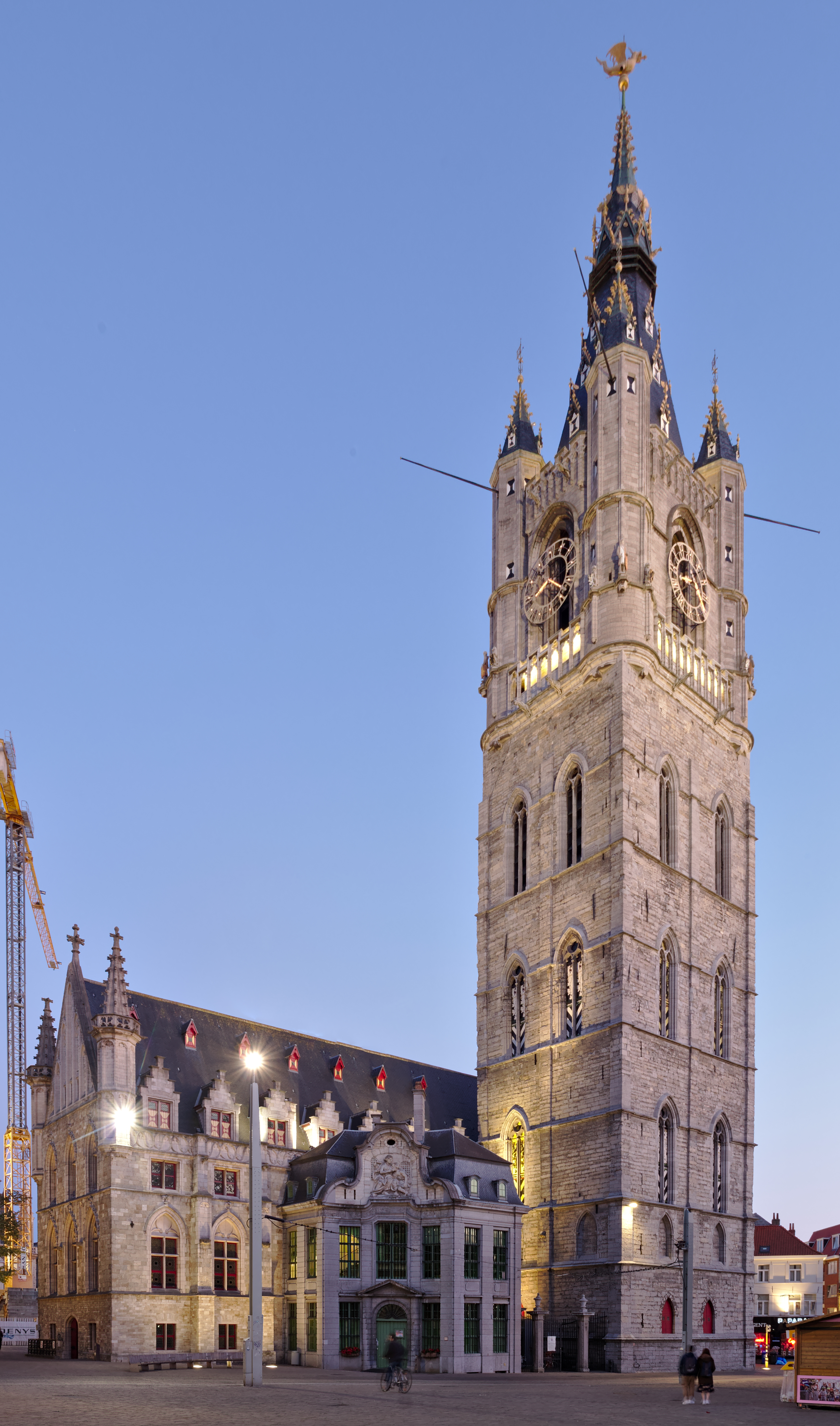 Belfry of Ghent during civil twilight This place is a UNESCO World Heritage Site, listed as Belfries of Belgium and France.